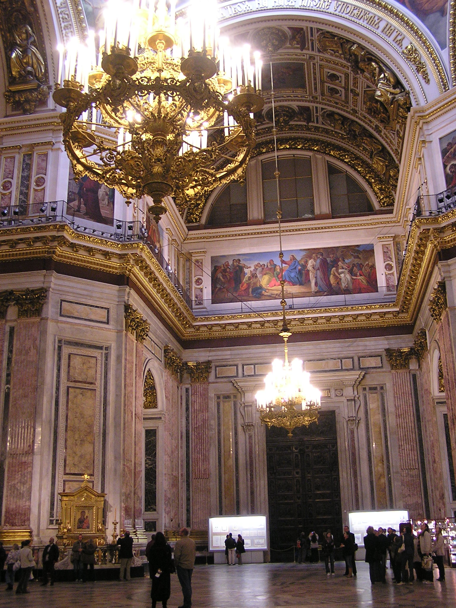 Saint Isaac's Cathedral